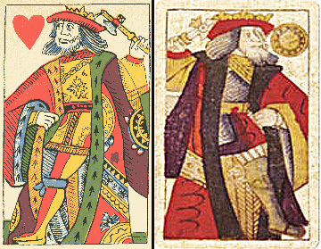 comparison between king of heart and king of coins (diamonds) of the French (made by Pierre Marechal) and the Spanish (made by Philippe Ayet) deks.